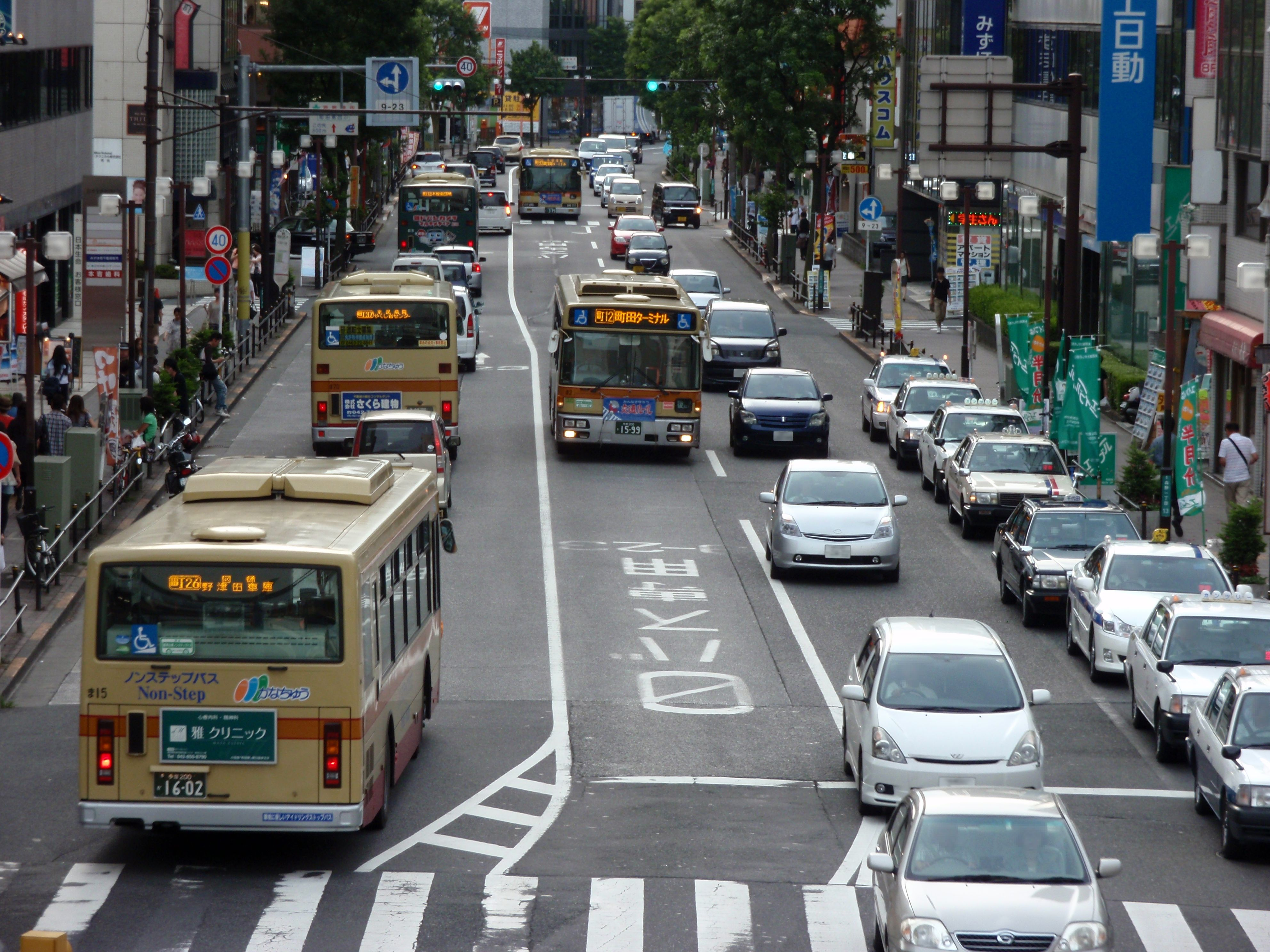 Central running type bus lane in the vicinity of Machida Sta.